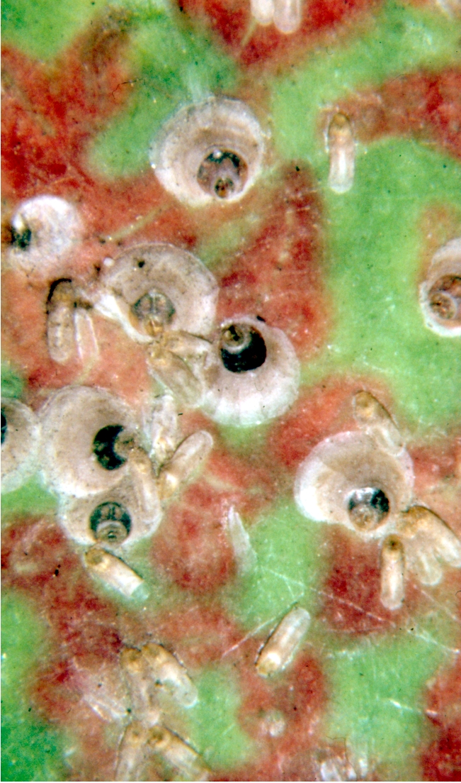 Adult females (circular, with dark spot) and immature instars (oblong) of Parlatoria oleae (Rhynchota: Diaspididae)